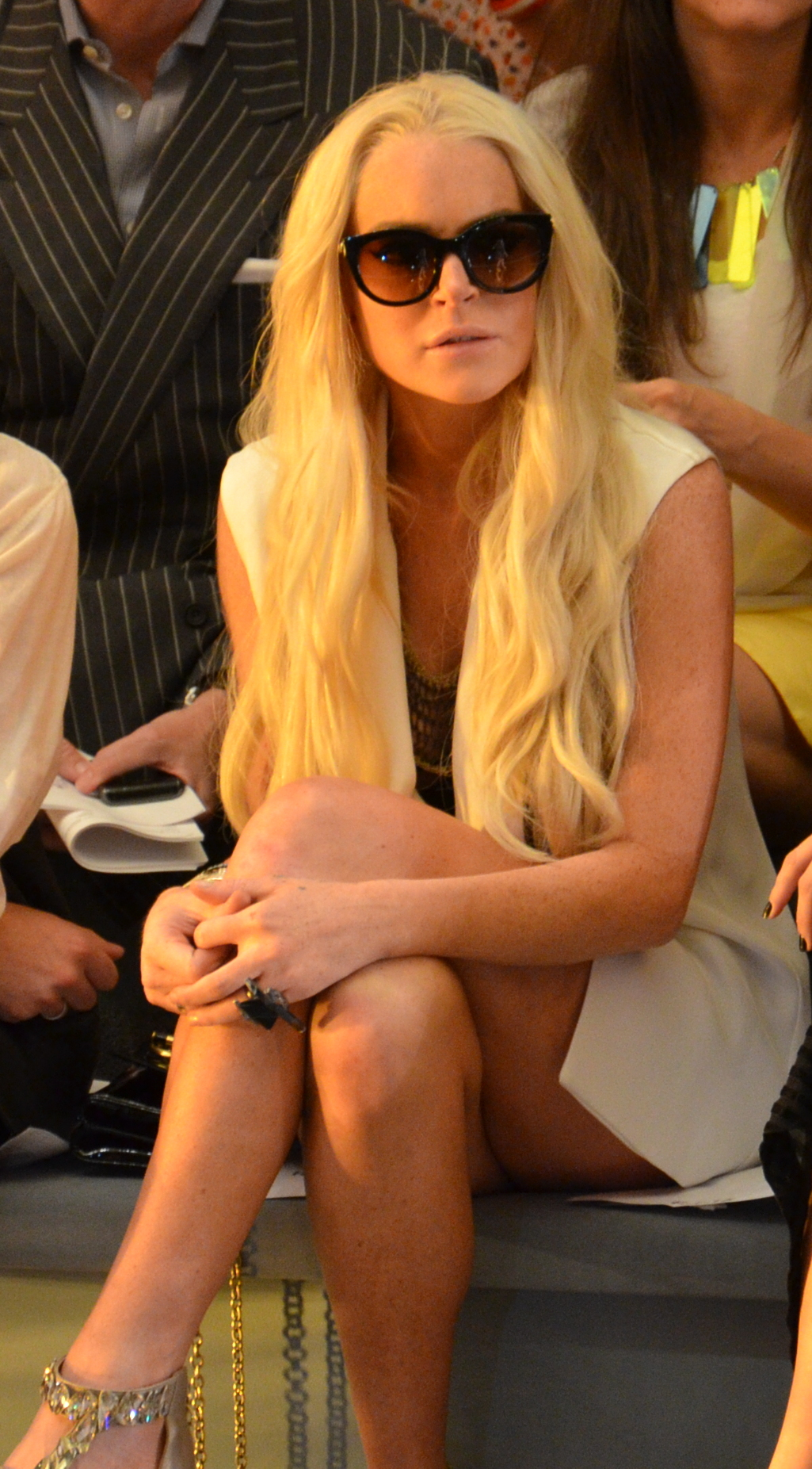 Lindsay Lohan at Cynthia Rowley, Mercedes-Benz Fashion Week, Spring Summer 2012 This photo was taken on September 9, 2011 in West Side, New York, NY, US